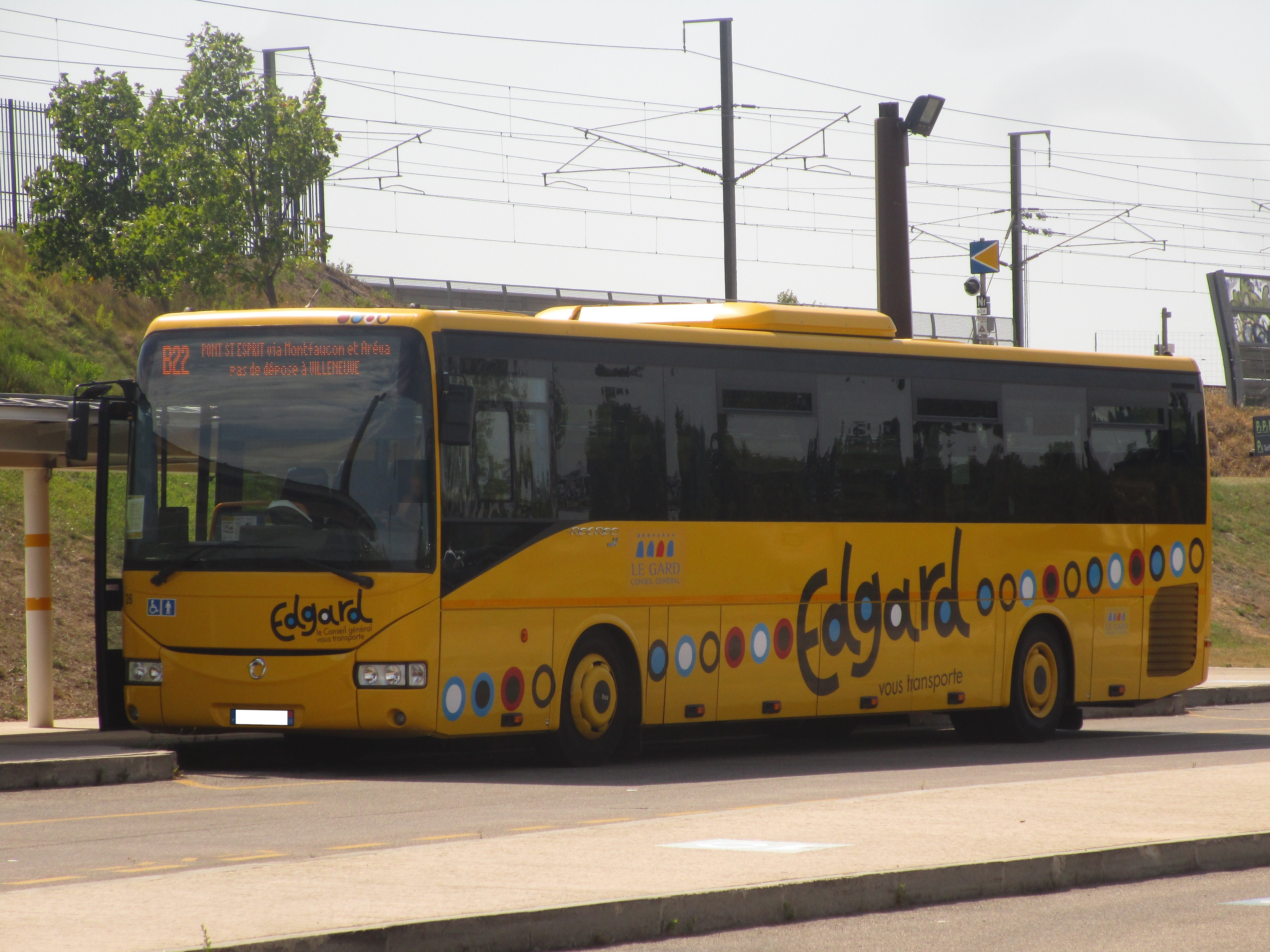 The Irisbus Récréo n°26 of Cars Auran (with the livery of the departmental bus network Edgard), at Avignon TGV railway station — in Avignon, France — on July 31, 2017.